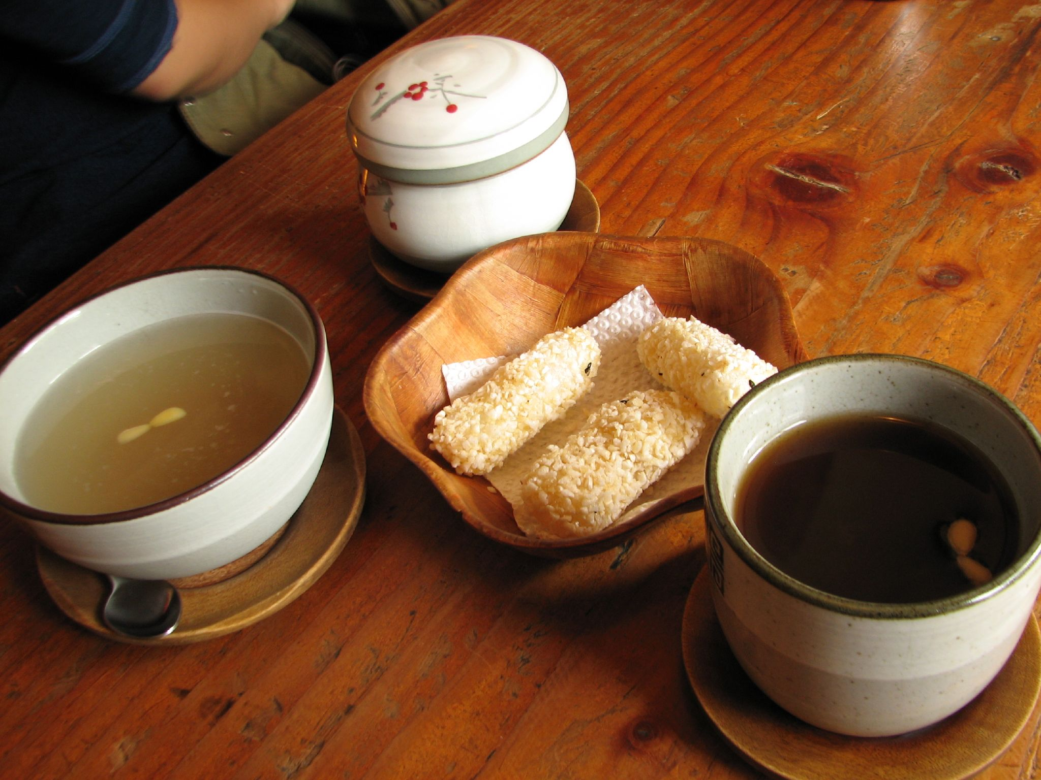 Korean tea and yugwa (fried and puffed rice snack)